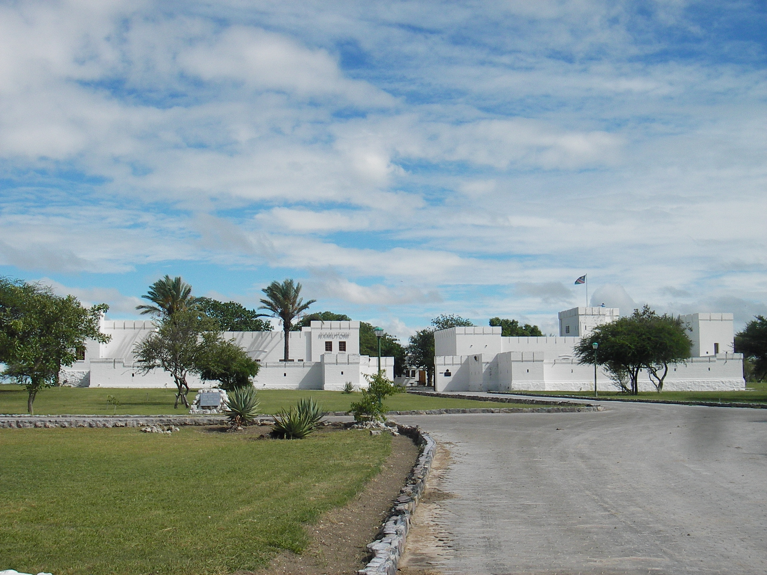 Fort Namutoni (Namuntomi is a spelling mistake)